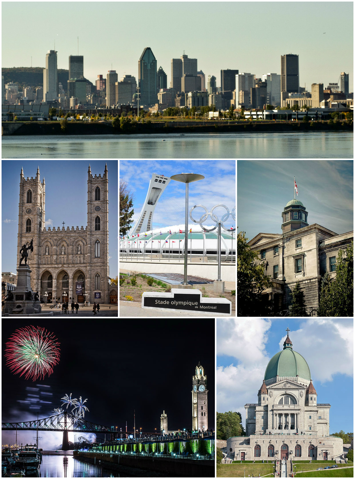 Montage of different images of Montreal, made from multiple existing images from Wiki Commons and Wikipedia.